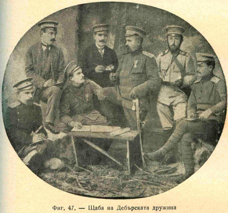 1 Debar Regiment Headquarters